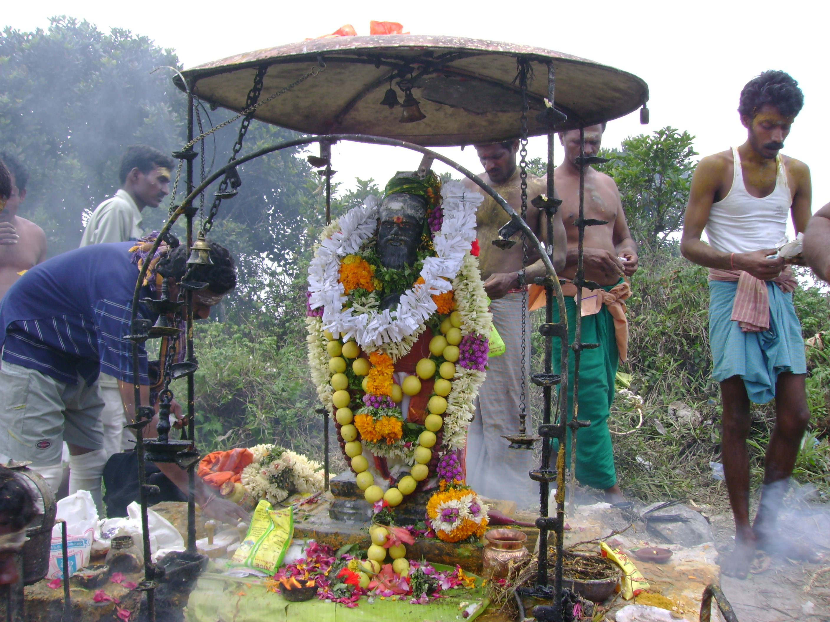 Saint Agathiyar Shrine @ Agathiyar Hill